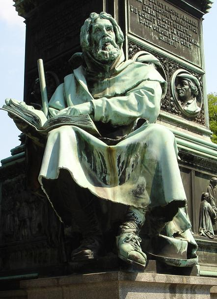 1868 statue of Peter Waldo at the Luther Memorial in Worms, Germany